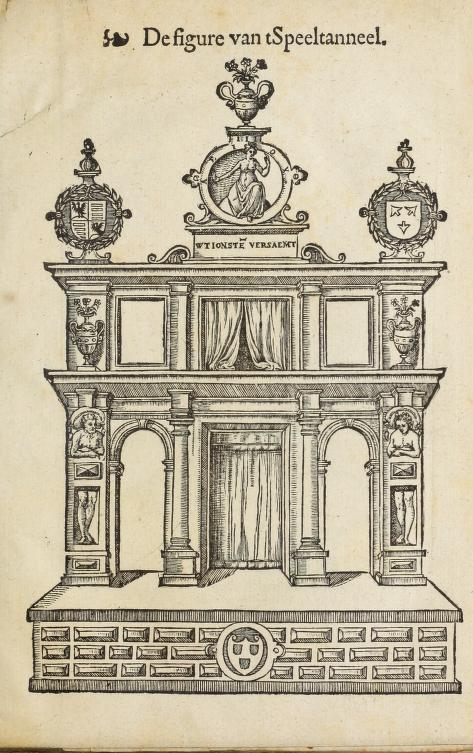 The invitation and moralities of the Landjuweel competition held in Antwerp in 1561, as well as other poetic works, were published in 1562 under the title Spelen van sinne, vol scoone moralisacien, vvtleggingen ende bediedenissen op alle loeflijcke consten with a preface by van Haecht. Published in 1562 in Antwerp by M. Willem Siluius. Willem van Haecht wrote the invitation and introduction.